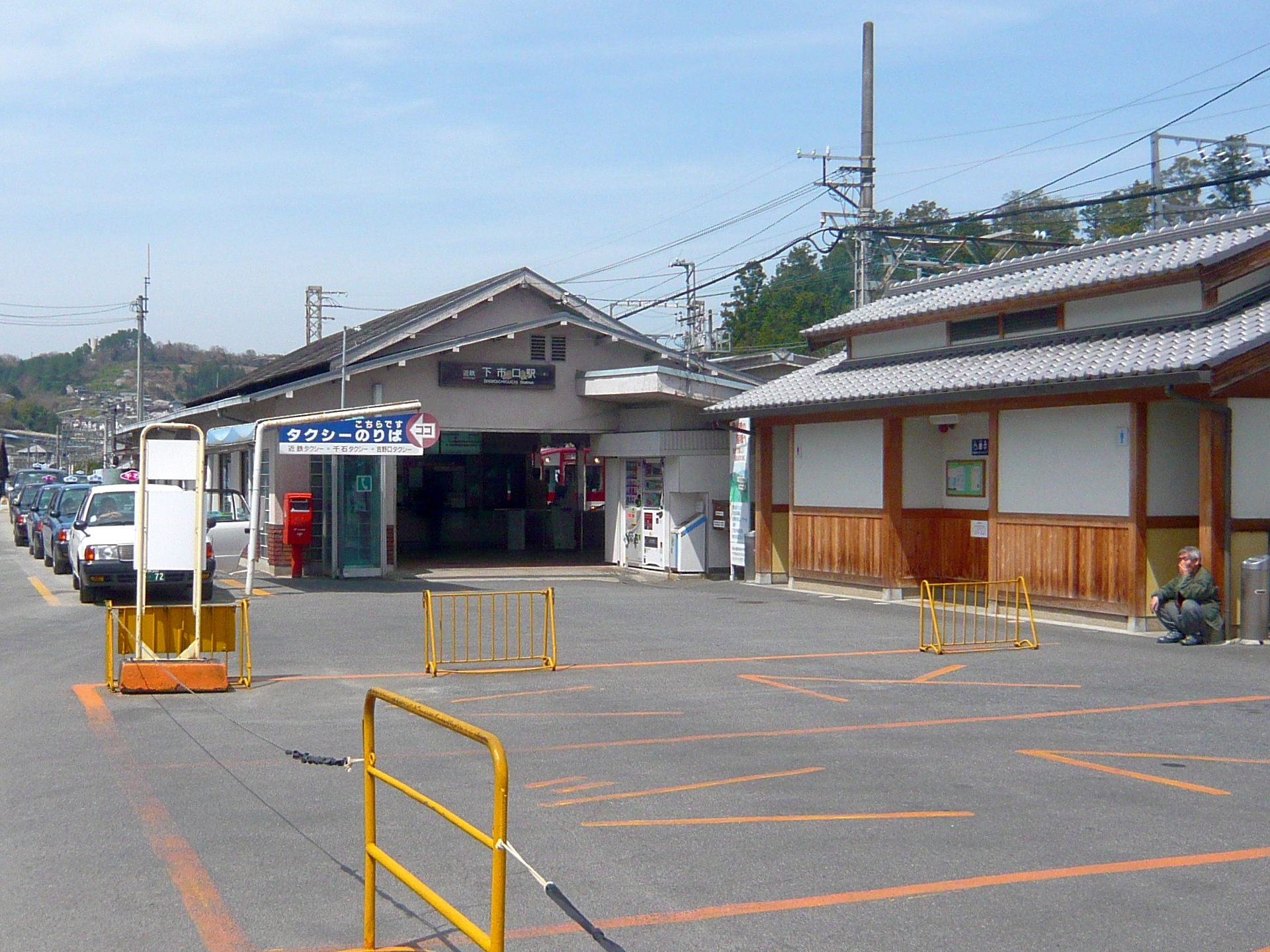 近鉄吉野線 下市口駅 Shimoichiguchi station 2010.4.04